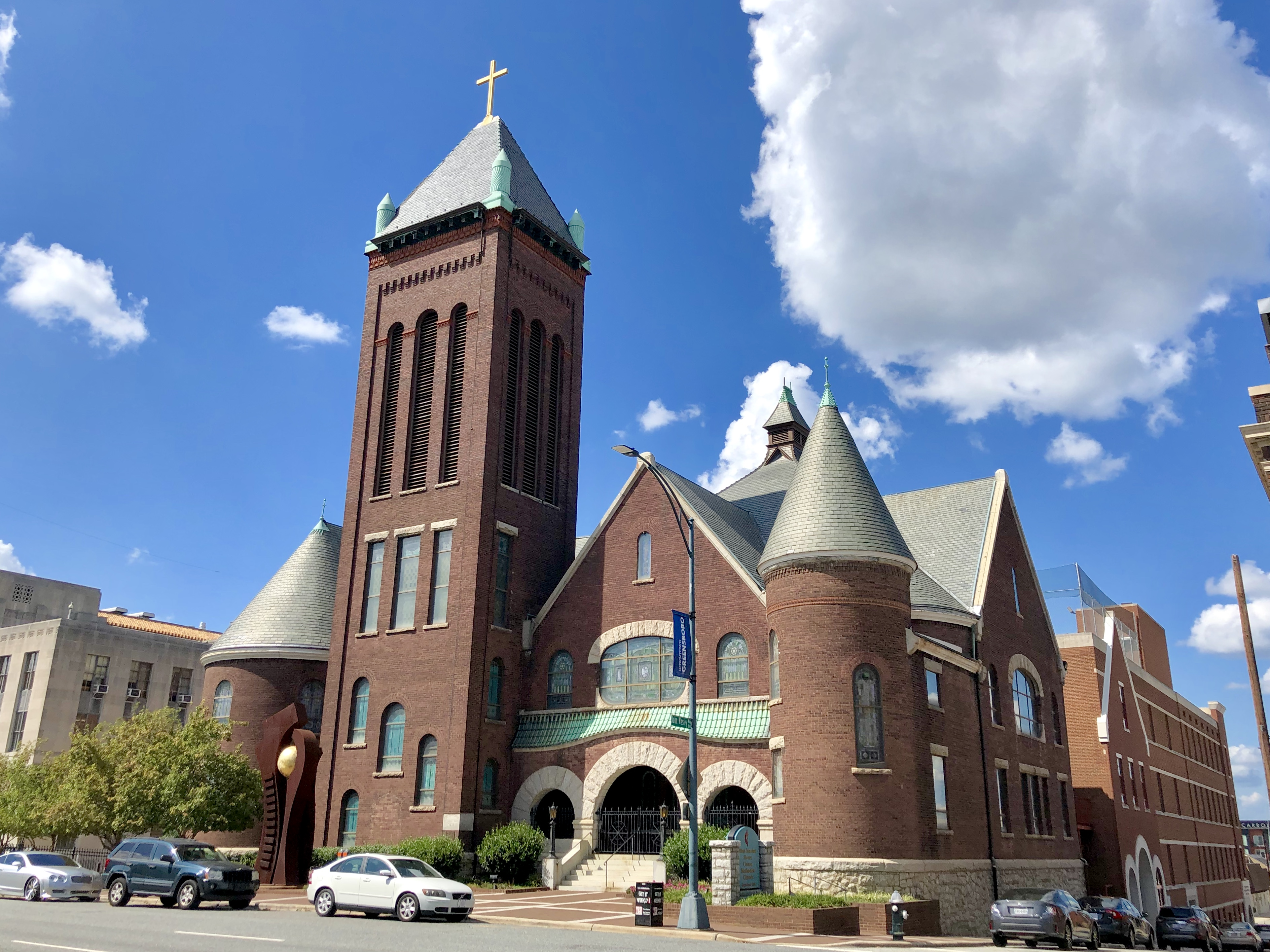 This is the West Market Street United Methodist Church, located on West Market Street in Greensboro, North Carolina. Constructed in 1893, the building was listed on the National Register of Historic Places in 1985.